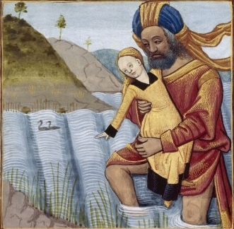 Metabus, King of the Volsci, and his daughter Camilla.